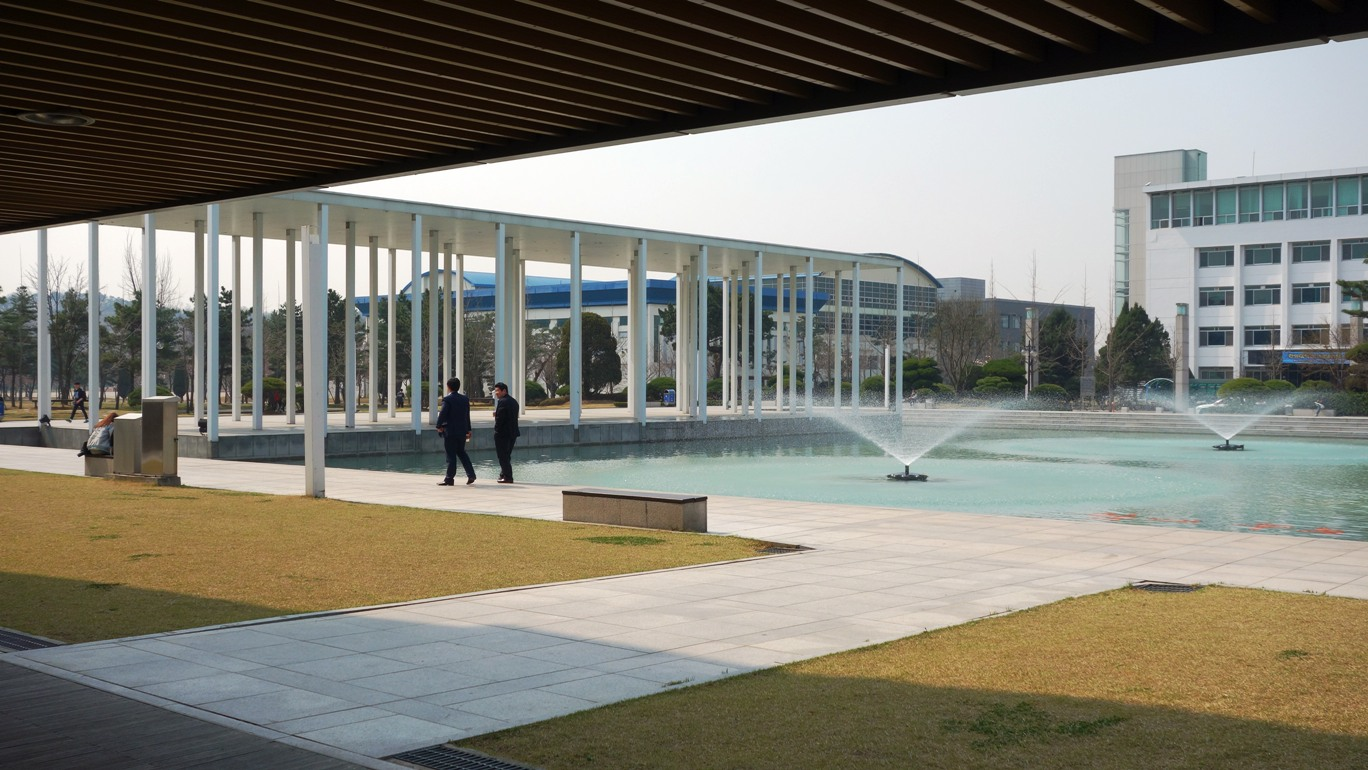 Lions Lake at Hanyang University Campus, Ansan, Korea